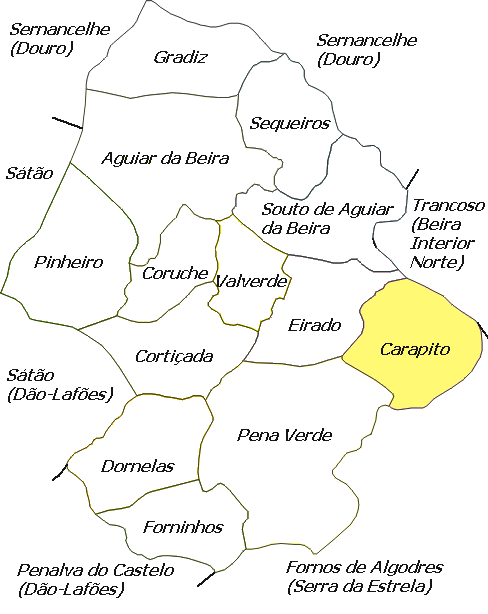 Map of Carapito parish in Portugal. Author: Kullanıcı:Mskyrider.